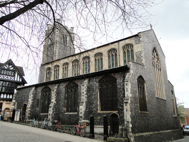 Norwich St John, Maddermarket church, near to Norwich, Norfolk, Great Britain. Maddermarket was where they used to sell madder or a red dye obtained from the root of the madder plant (Rubia Tinctoria)